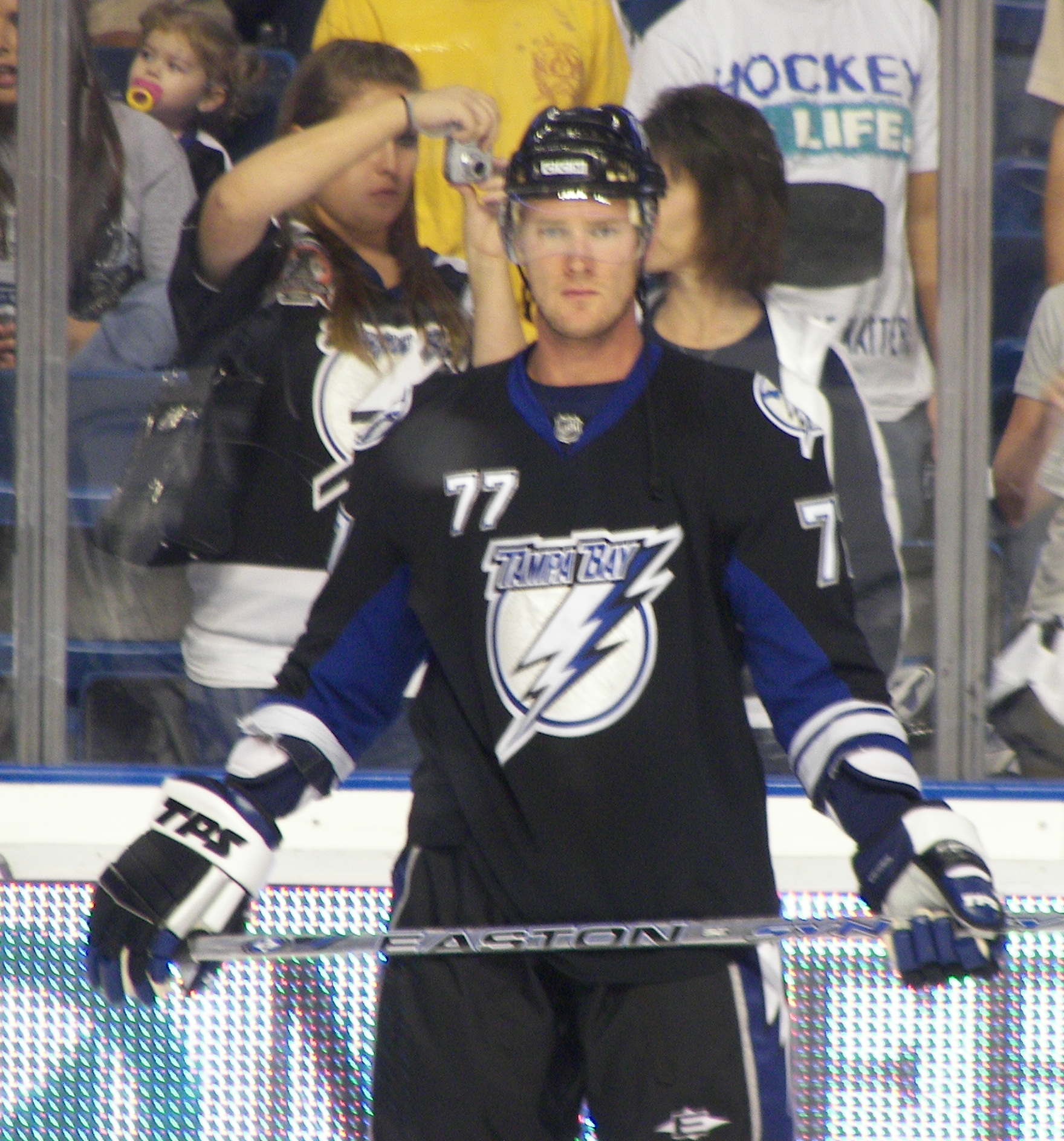 Chris Gratton of the Tampa Bay Lightning during a Lightning vs. Atlanta Thrashers ice hockey game at the St. Pete Times Forum in Tampa, Florida on October 20, 2007.